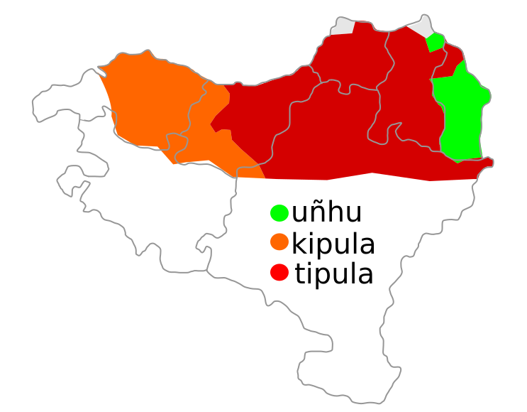 Isoglosses for the Basque name of the onion Аҧсшәа: Isoglosak: Tipula izendatzeko moduak euskaraz, tokiko euskalkiak dokumentatu ahal izan diren eremuan.